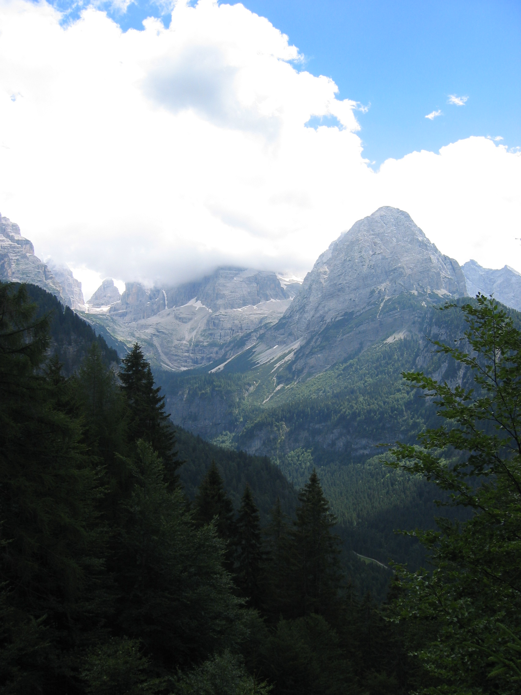 The Brenta mountains surrounding the Brenta valley (Val Brenta), as seen from near town of Madonna di Campiglio. In the far distance below the clouds Cima Brenta Bassa (2812m), in the middle the famous, but hidden Crozzon di Brenta (with the lower parts of the north ridge) and in the right foreground Cima Fracinglo (2664m).